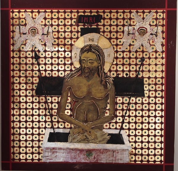 Hristos (Silviu Oravitzan)